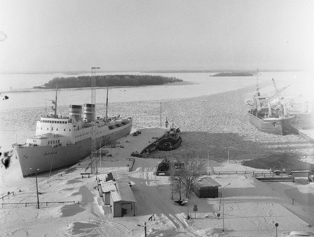 Port of Jakobstad 1991.